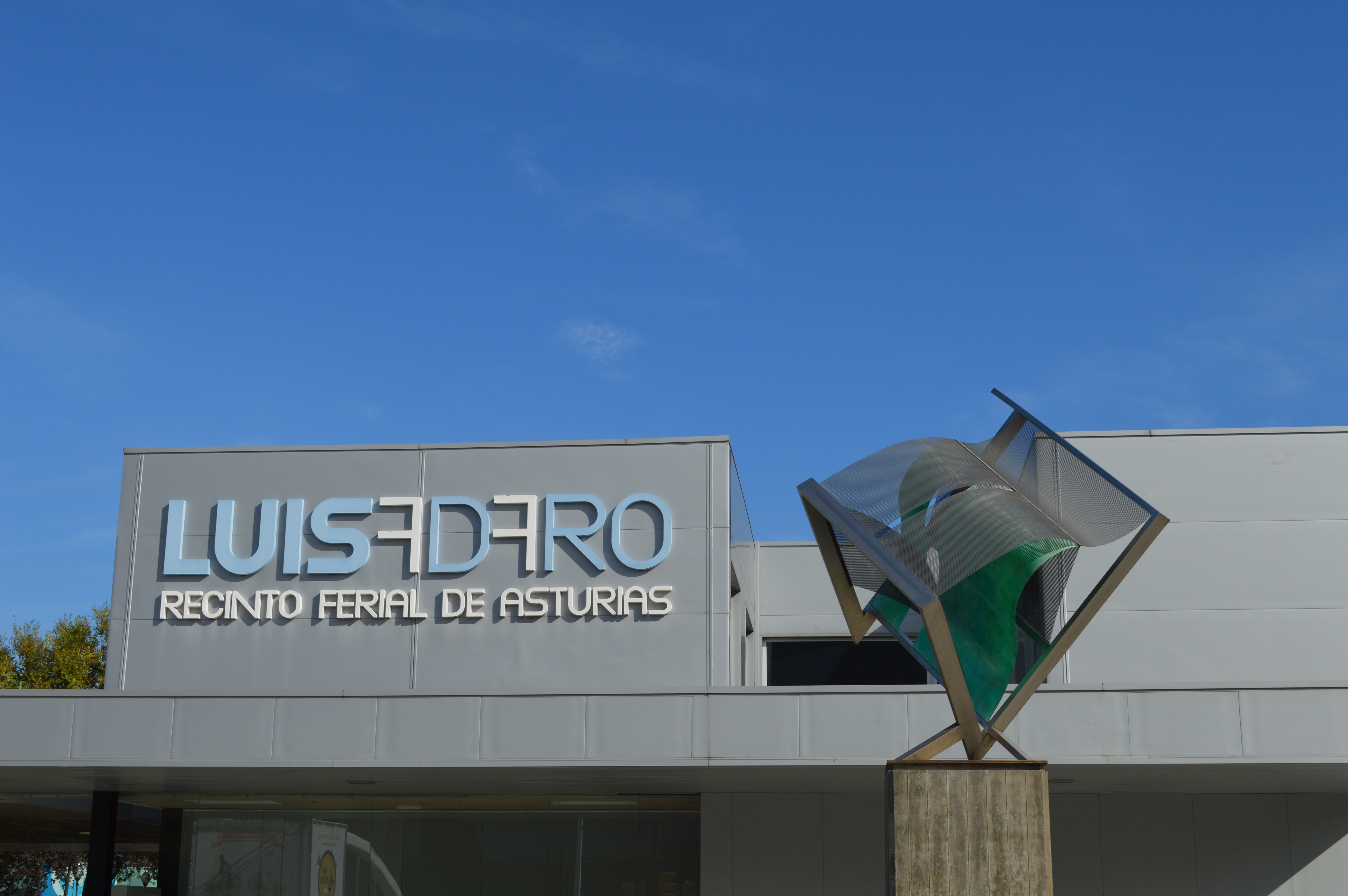 Gijon Asturias 2015